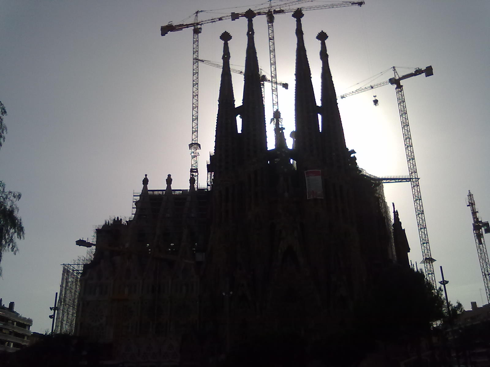 Sagrada Familia with cranes - backlight